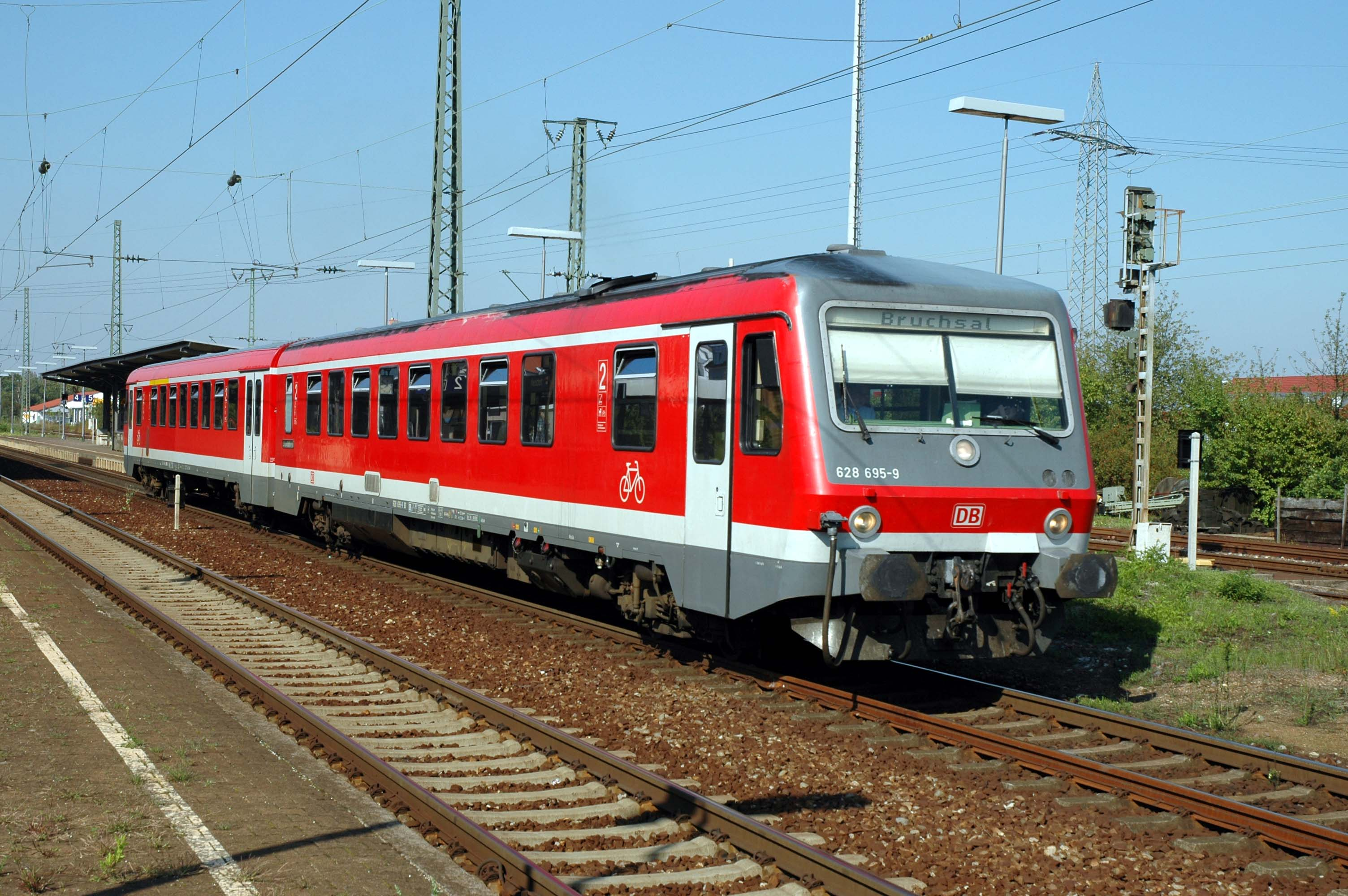 DB AG class 628 diesel multiple unit 695 seen in Graben-Neudorf, train numer RB 18785.